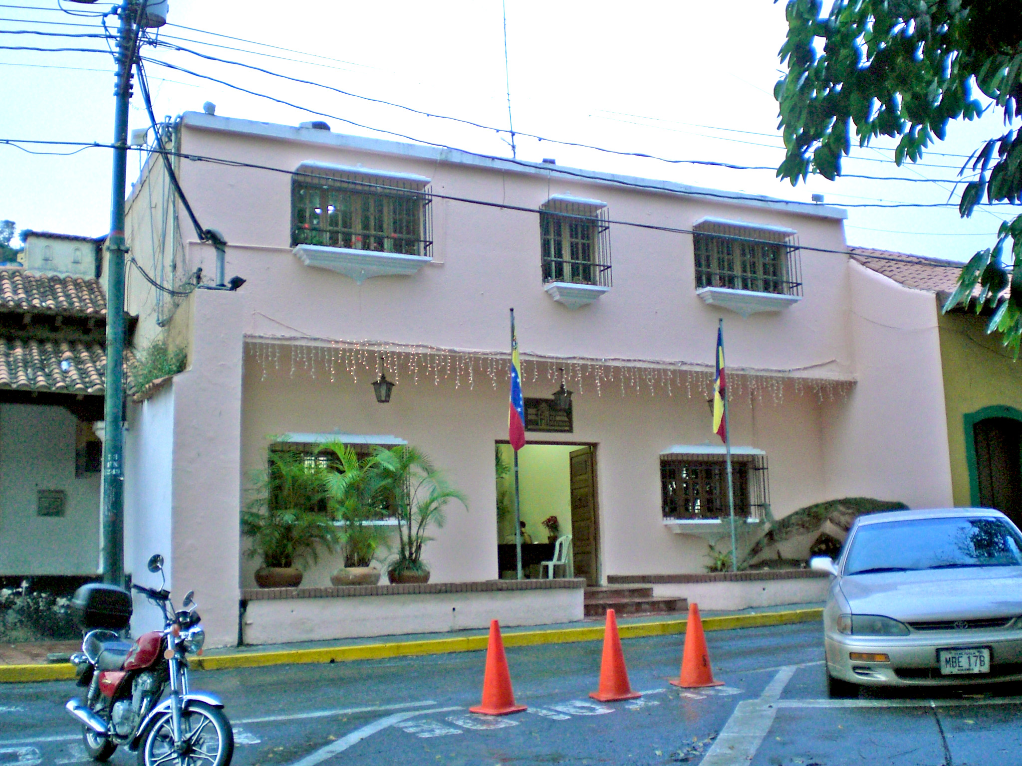 El Hatillo Municipality City Hall, Caracas, Venezuela.